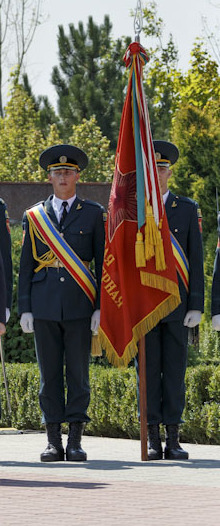 Министр обороны России генерал армии Сергей Шойгу высоко оценивает важность миротворческой операции в Приднестровье